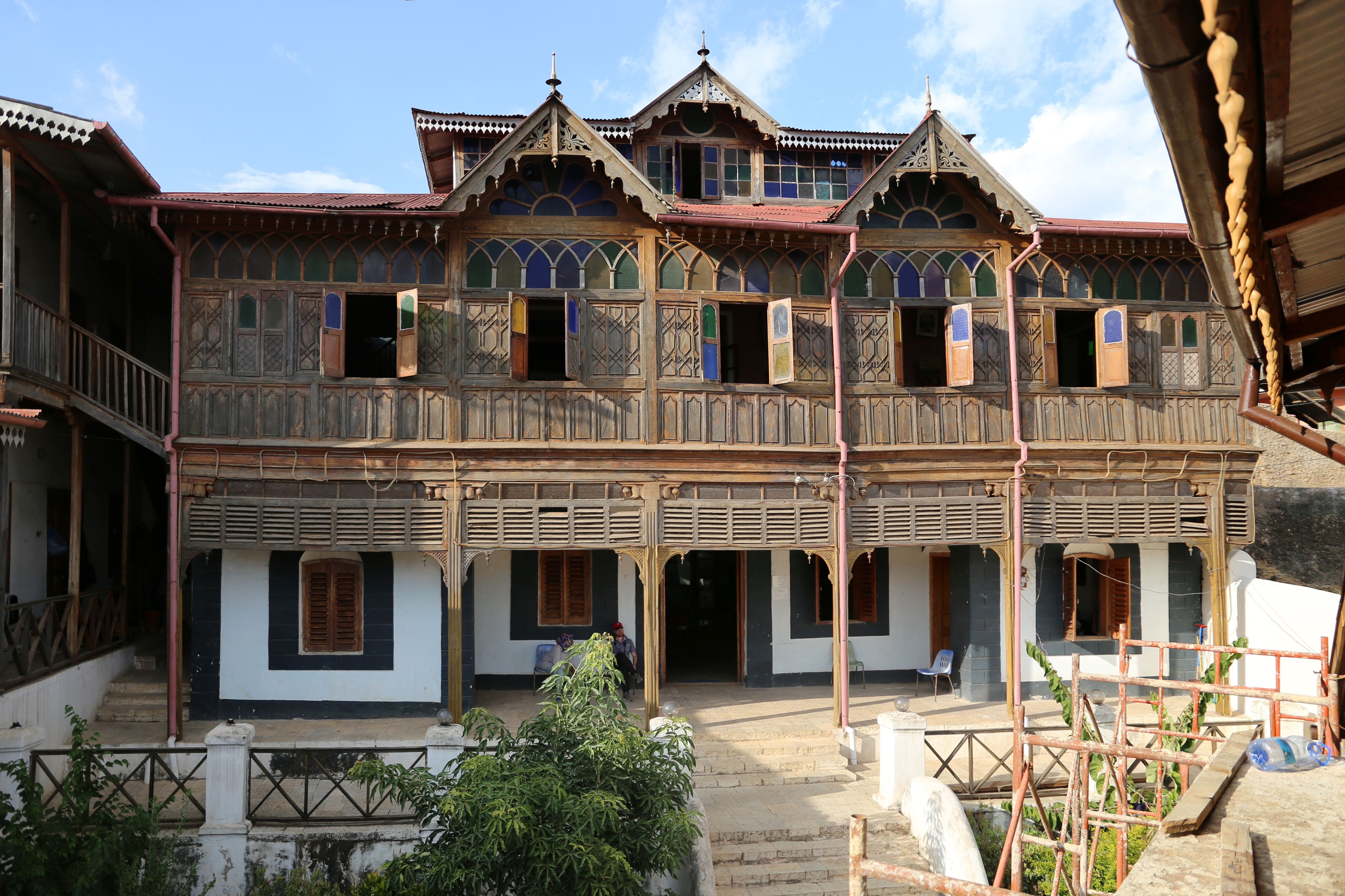 Rimbaud's House & Museum (Harar, Ethiopia)